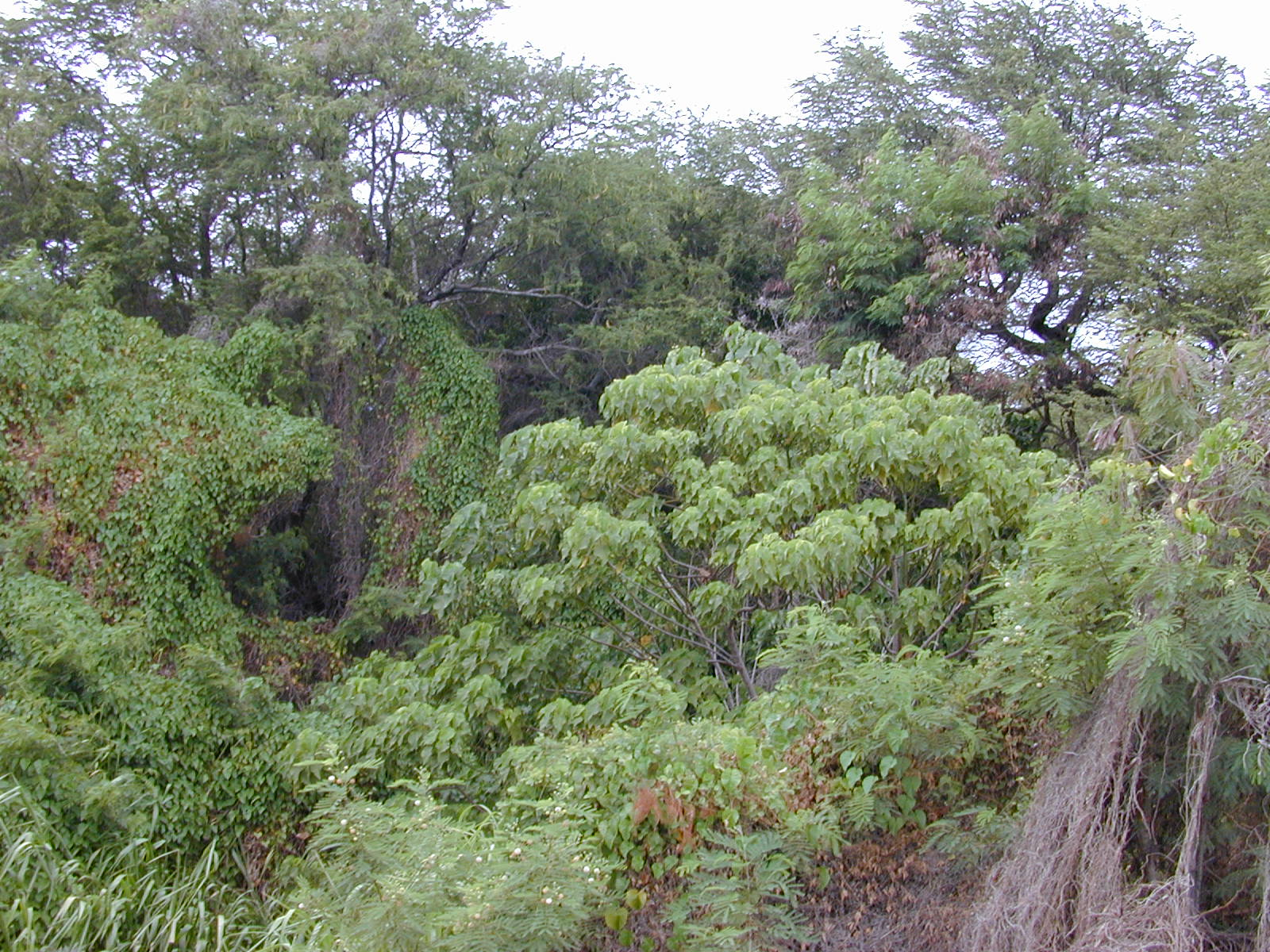 Macaranga tanarius (habit). Location: Maui, Waikapu stream